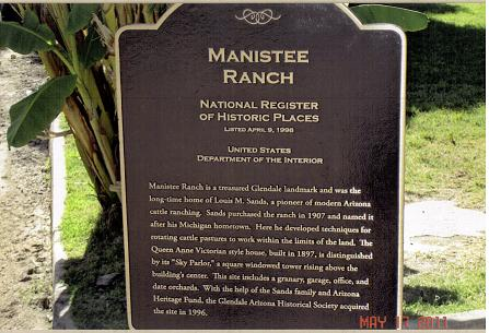 National Register of Historic Places Marker at the Manistee Ranch in Glendale, Arizona Plaque